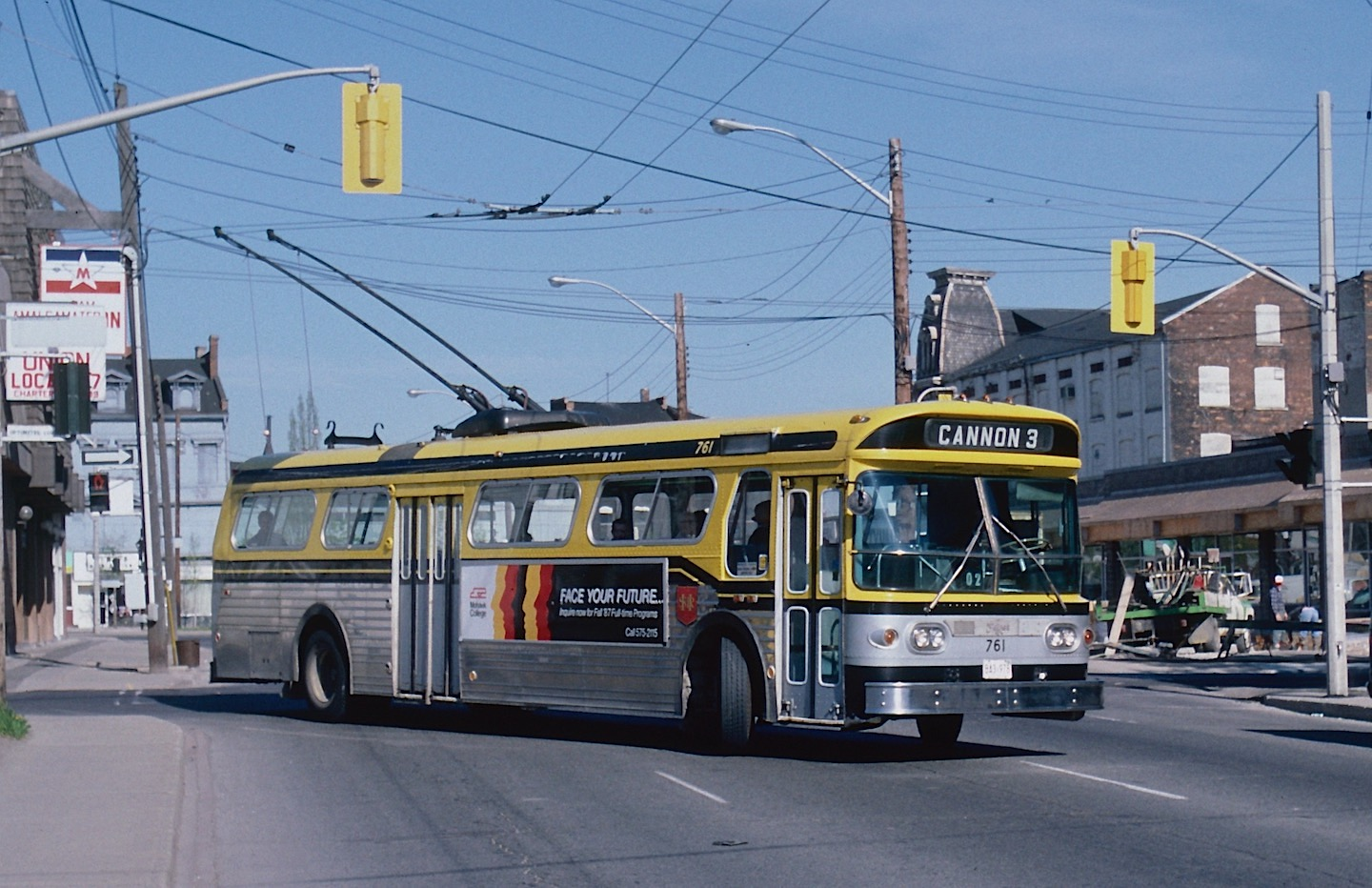 Hamilton trolleybus 761 turning onto Wilson Street (formerly Gore St. here) from Hughson Street in 1987, outbound on route 3-Cannon. No. 761 was a Flyer E700A, built in 1972. The Hamilton trolleybus system closed on 30 December 1992.